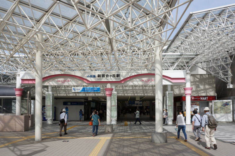 The south entrance to Shin-Yurigaoka Station on the Odakyu Odawara Line in Kanagawa Prefecture, Japan